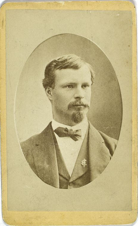 Photo of Charlie Gould, Baseball Player